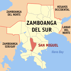 Map of Zamboanga del Sur showing the location of San Miguel